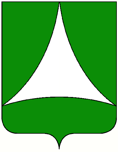 Coat of arms of the municipality of Freienfeld, South Tyrol.